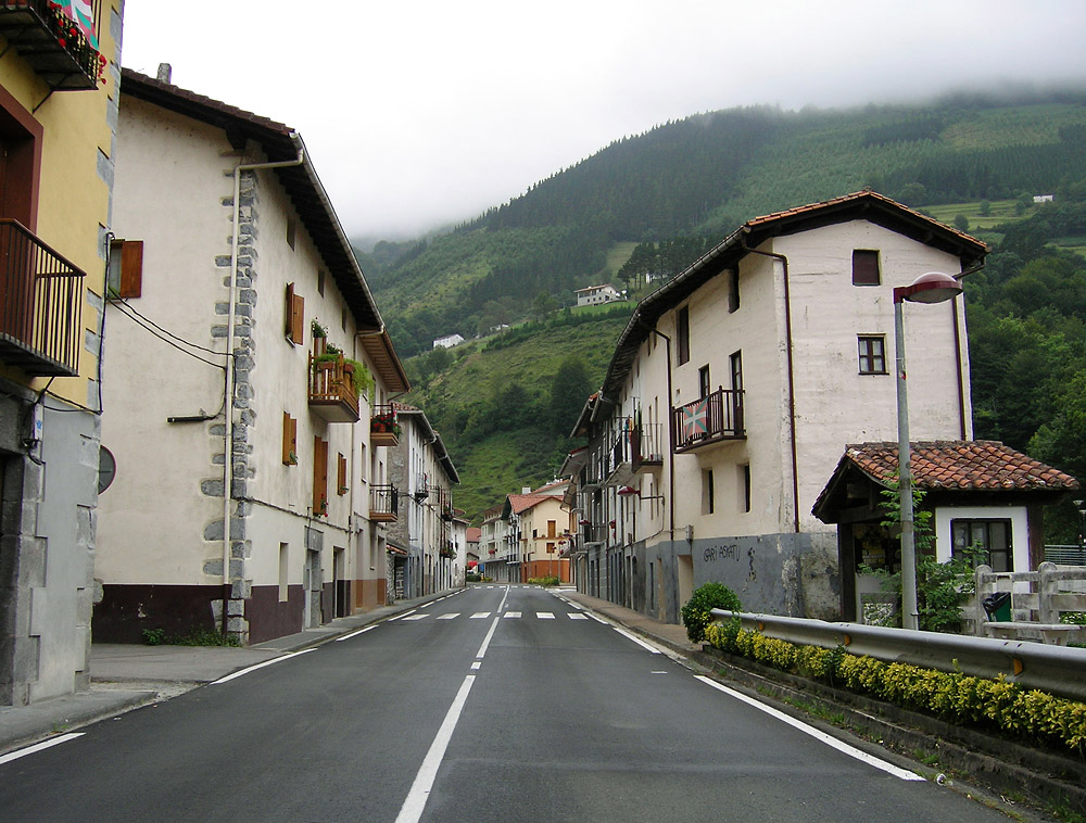 Lizartza